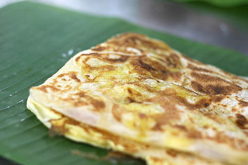 Roti Canai, traditional food of South Asia, on top of banana leaf